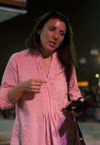 Lourdes Garcia-Navarro on assignment in Baghdad